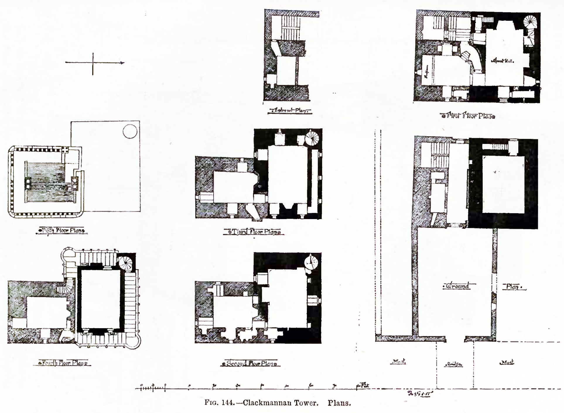 Clackmannan Tower, Scotland.